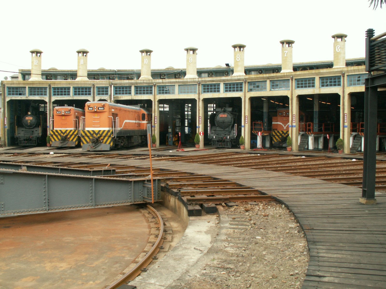 Taiwan Railway Administration Changhua Roundhouse.Bân-lâm-gú: Tâi-uân Thih-lōo-kio̍k tī Tsiong-huà ê sìnn-hîng tshia-khòo. 臺灣鐵路局佇彰化的扇形車庫。